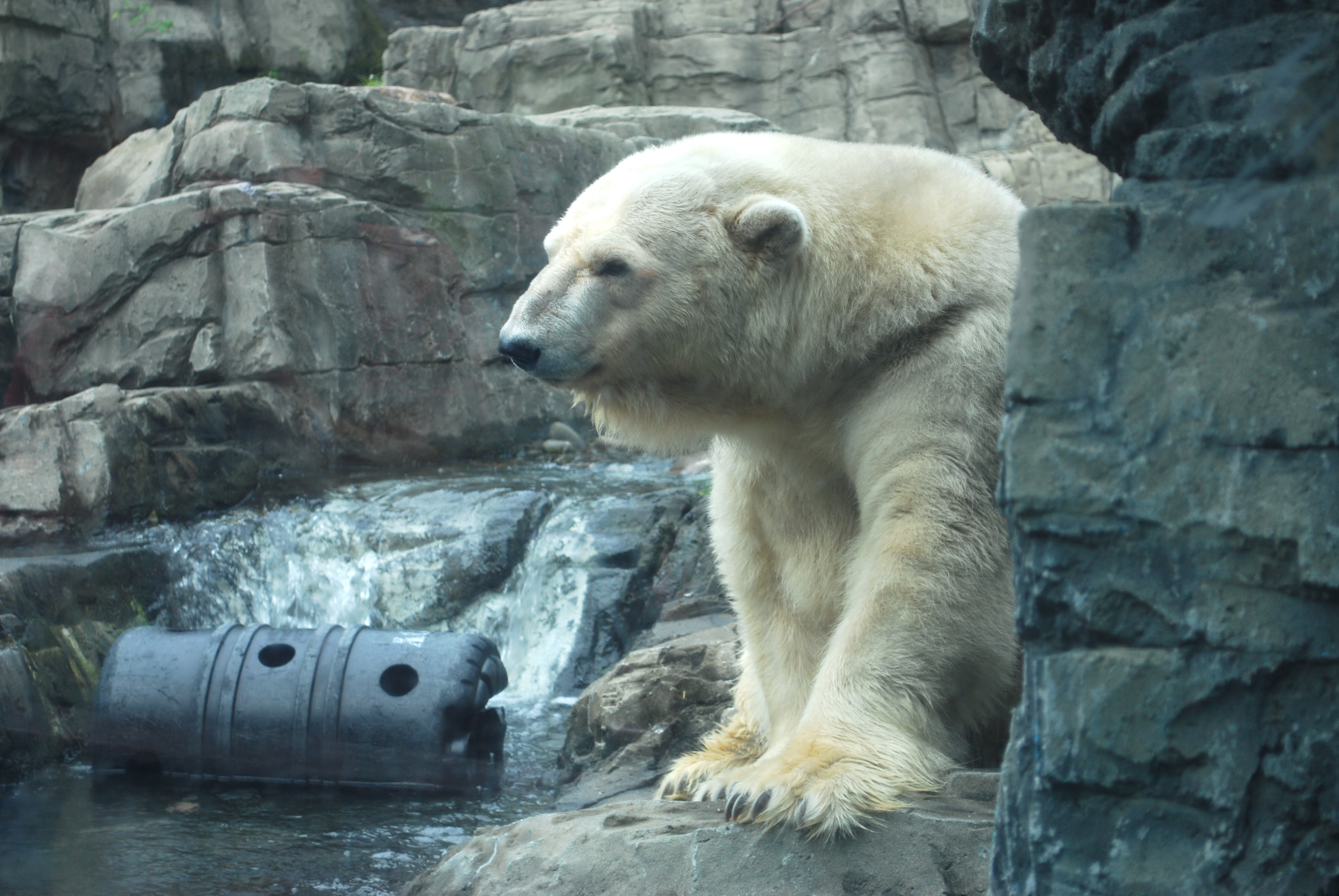 A polar bear at the Central Park Zoo in Manhattan, New York City, NY, USA